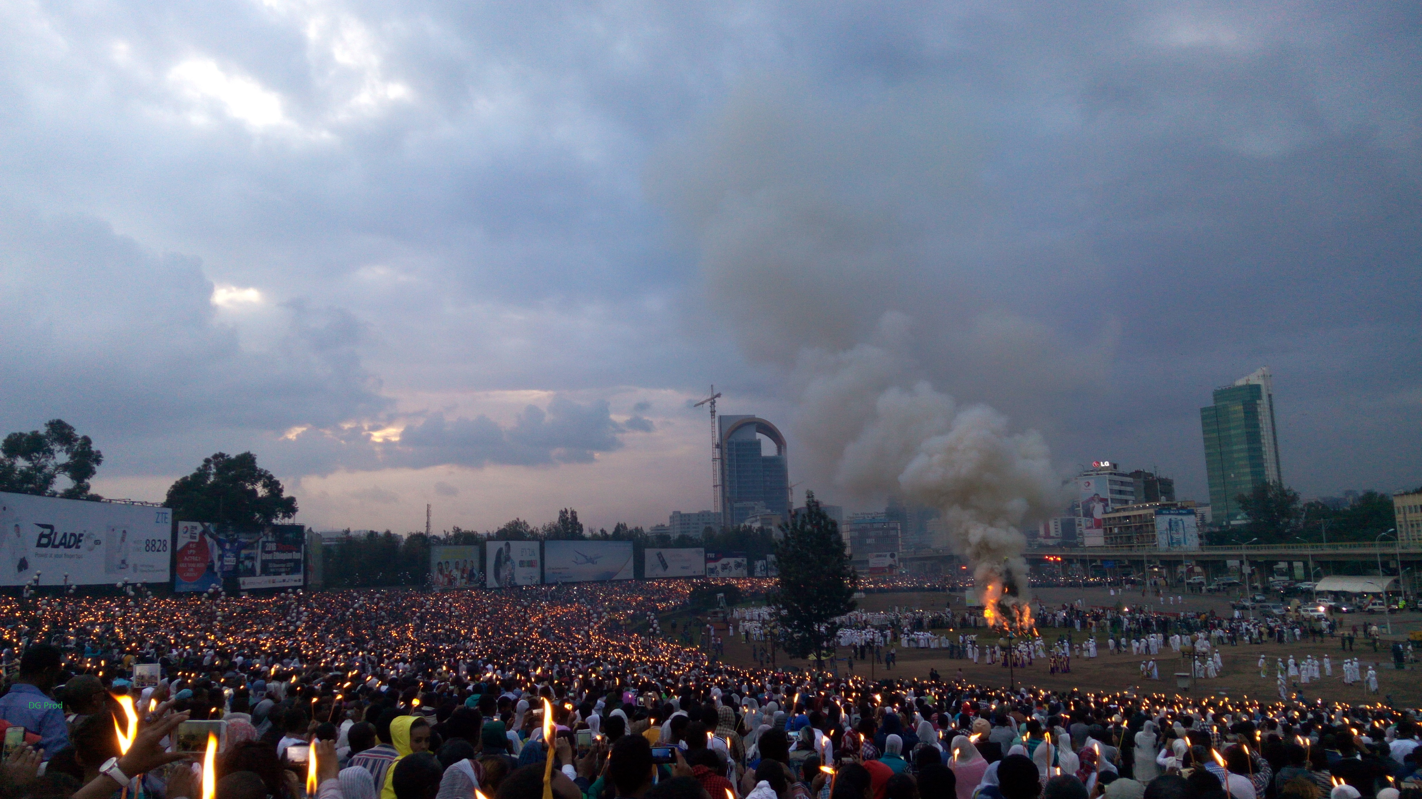 Meskel Celebration , 2016 This is an image of music and dance from Ethiopia